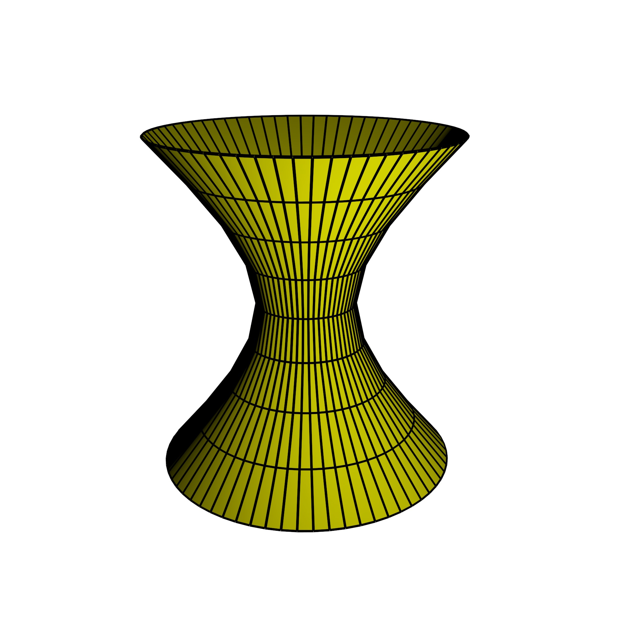 Хиперболоид ротацијом хиперболе